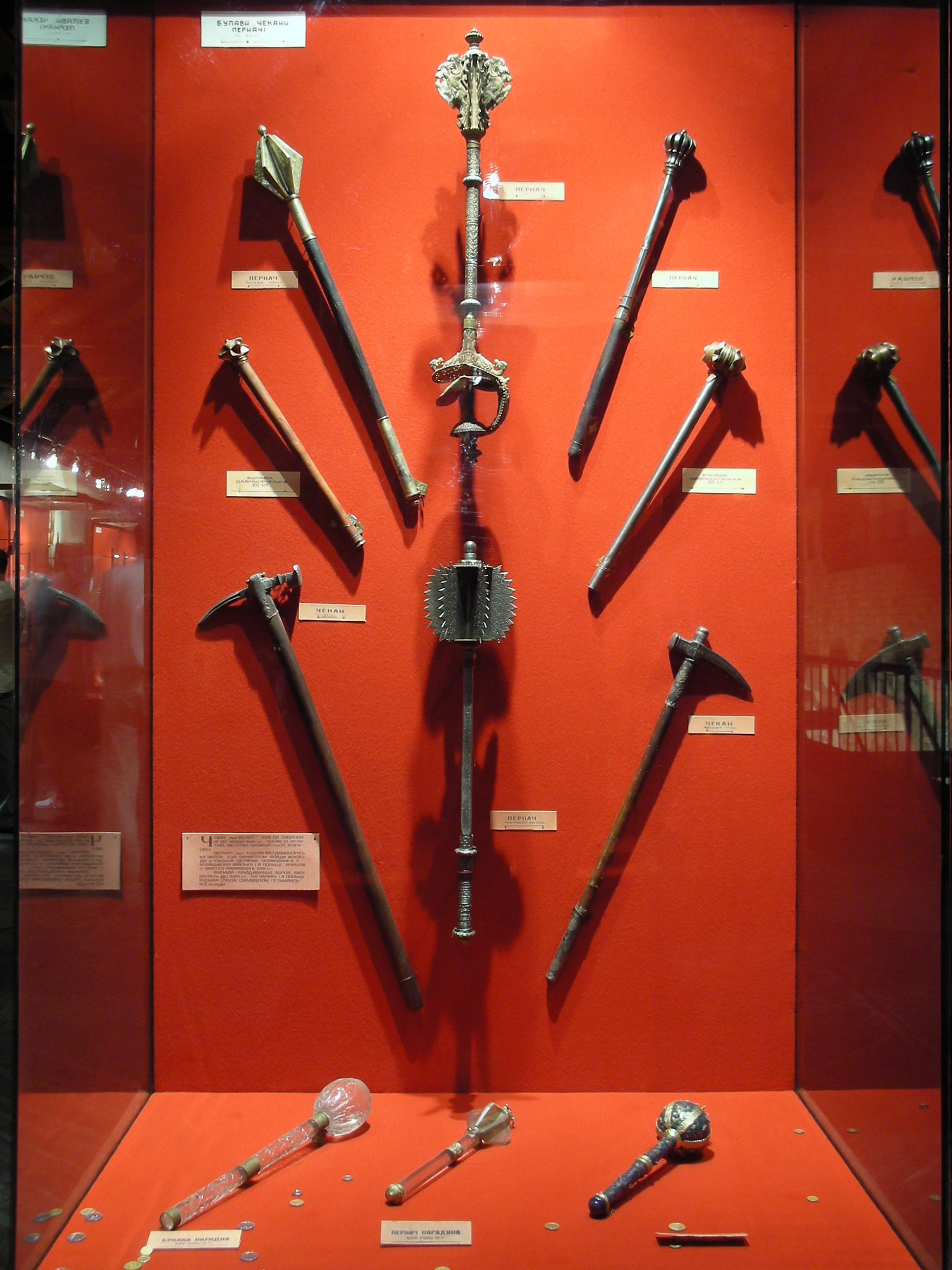 "Arsenal" Museum in Lviv (Ukraine).